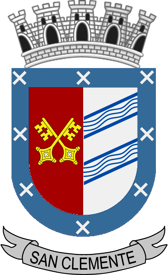 Coat of arms of San Clemente commune (Chile)